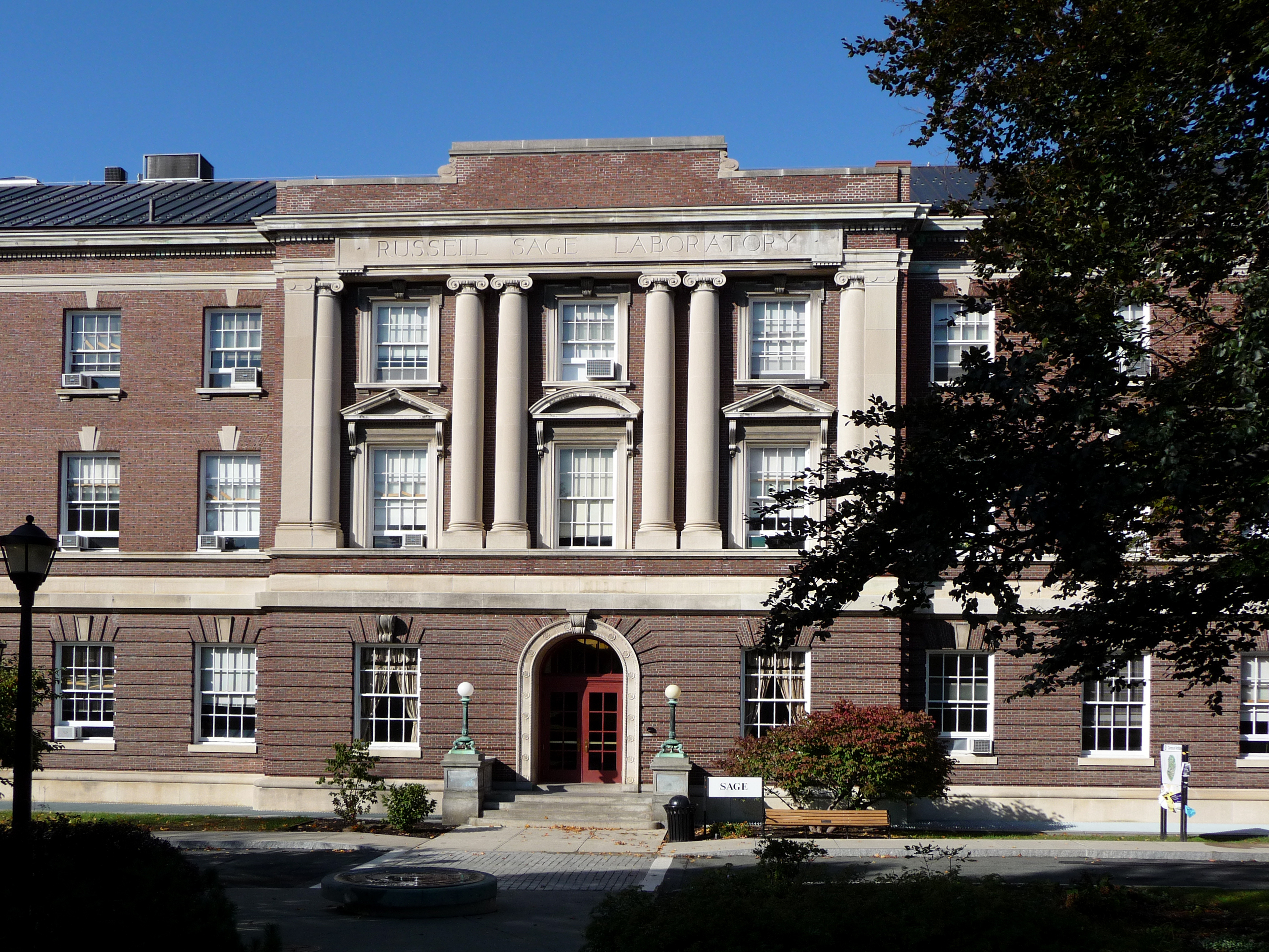 Russell Sage Laboratory on the campus of Rensselaer Polytechnic Institute in Troy, New York